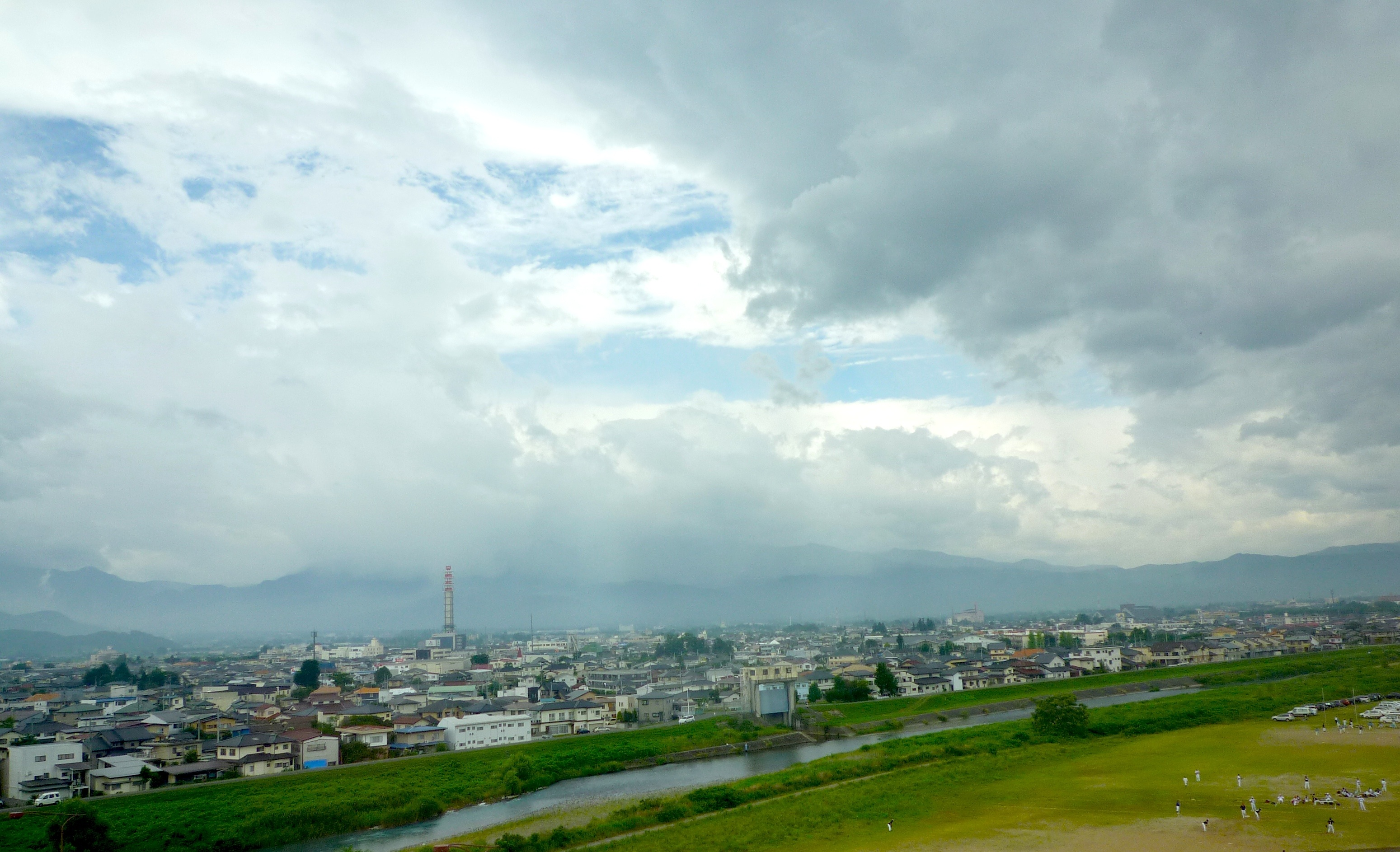 The Arakawa River in Fukushima, Japan